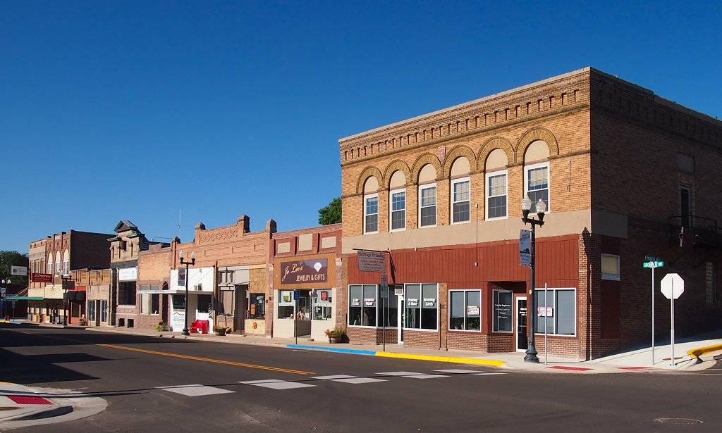 Ortonville Commercial Historic District, Ortonville, Minnesota, USA. View from the south of the northeastern side of 2nd St NW (MN State Highway 7) between Monroe and Madison Aves.